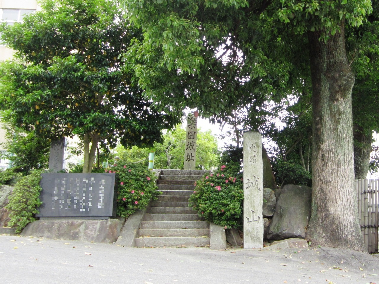 The site of Gakuden Castle in Inuyama, Aichi.